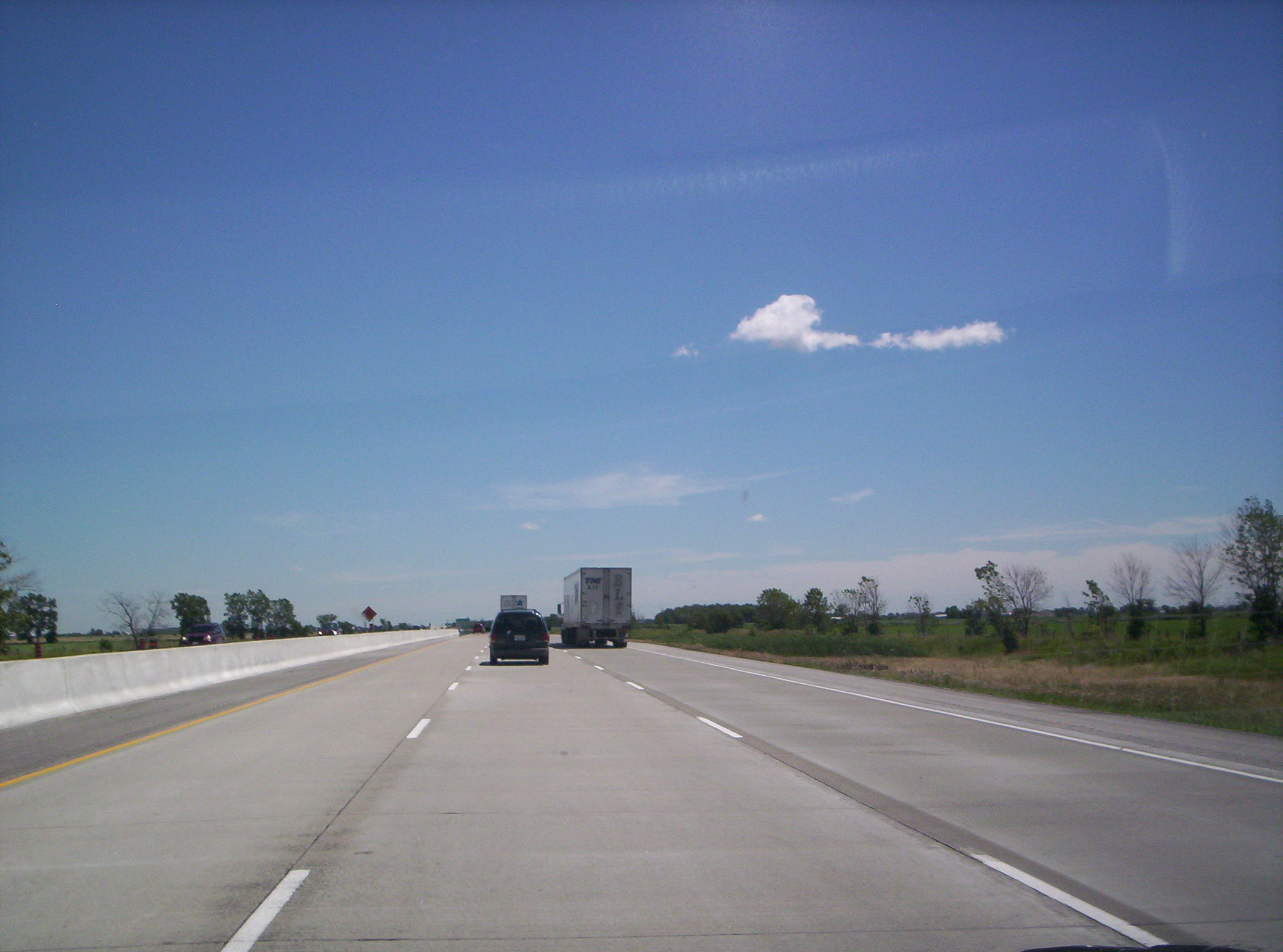 New 401 near Windsor